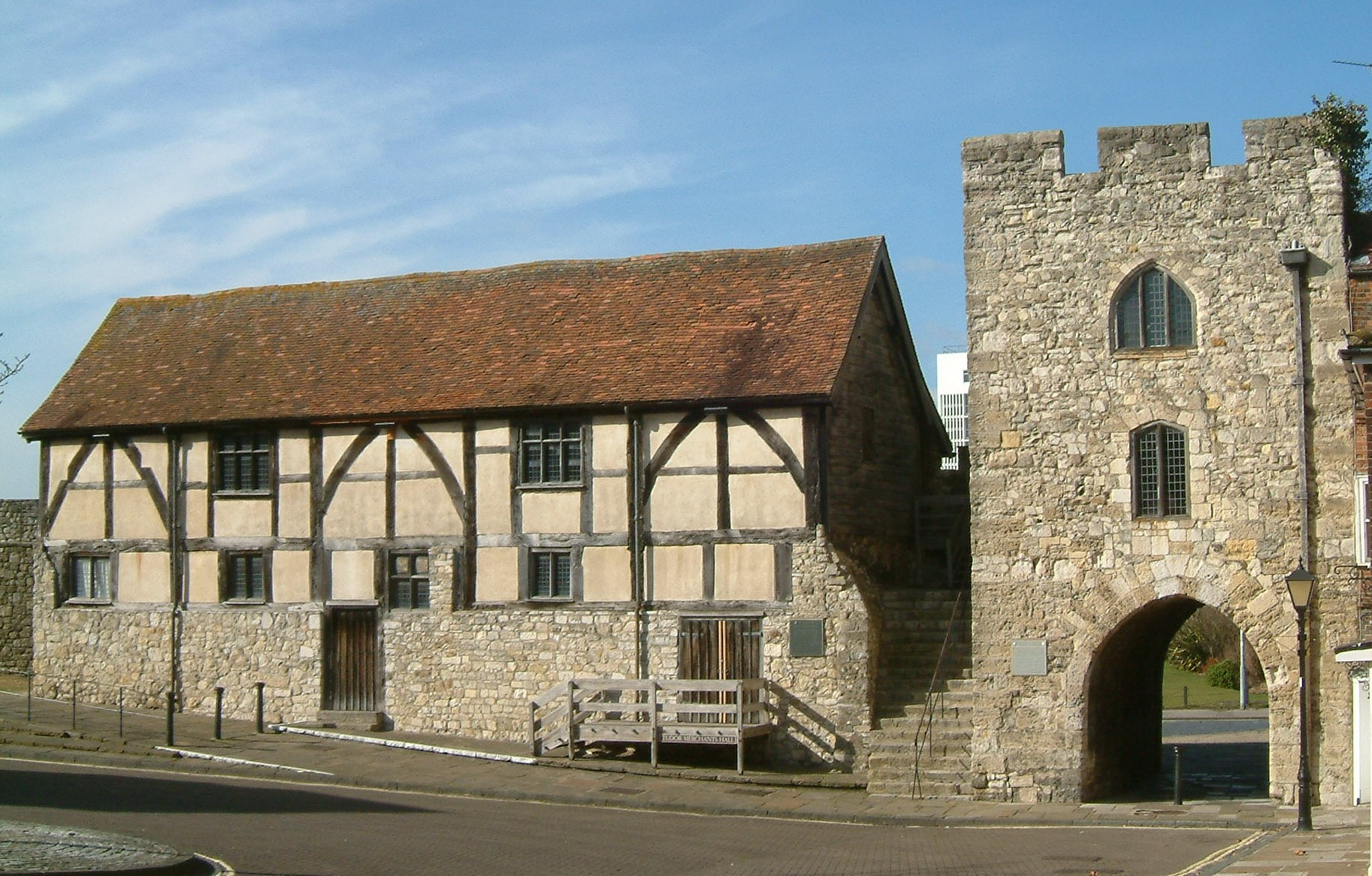 West Gate, Southampton, Hampshire. The 15th-century Tudor Merchant's Hall it to the left of the gate tower.